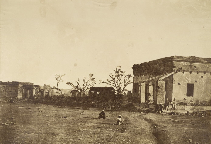 Photograph entitled, "The Hospital in General Wheeler's entrenchment, Cawnpore," taken in 1858. From 'Murray Collection: Views in Delhi, Cawnpore, Allahabad and Benares' taken by Dr. John Murray in 1858. The hospital designed by General Wheeler was the site of the first major loss of British lives.